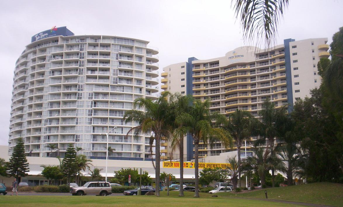 Les tours Twin towns à Tweed Heads